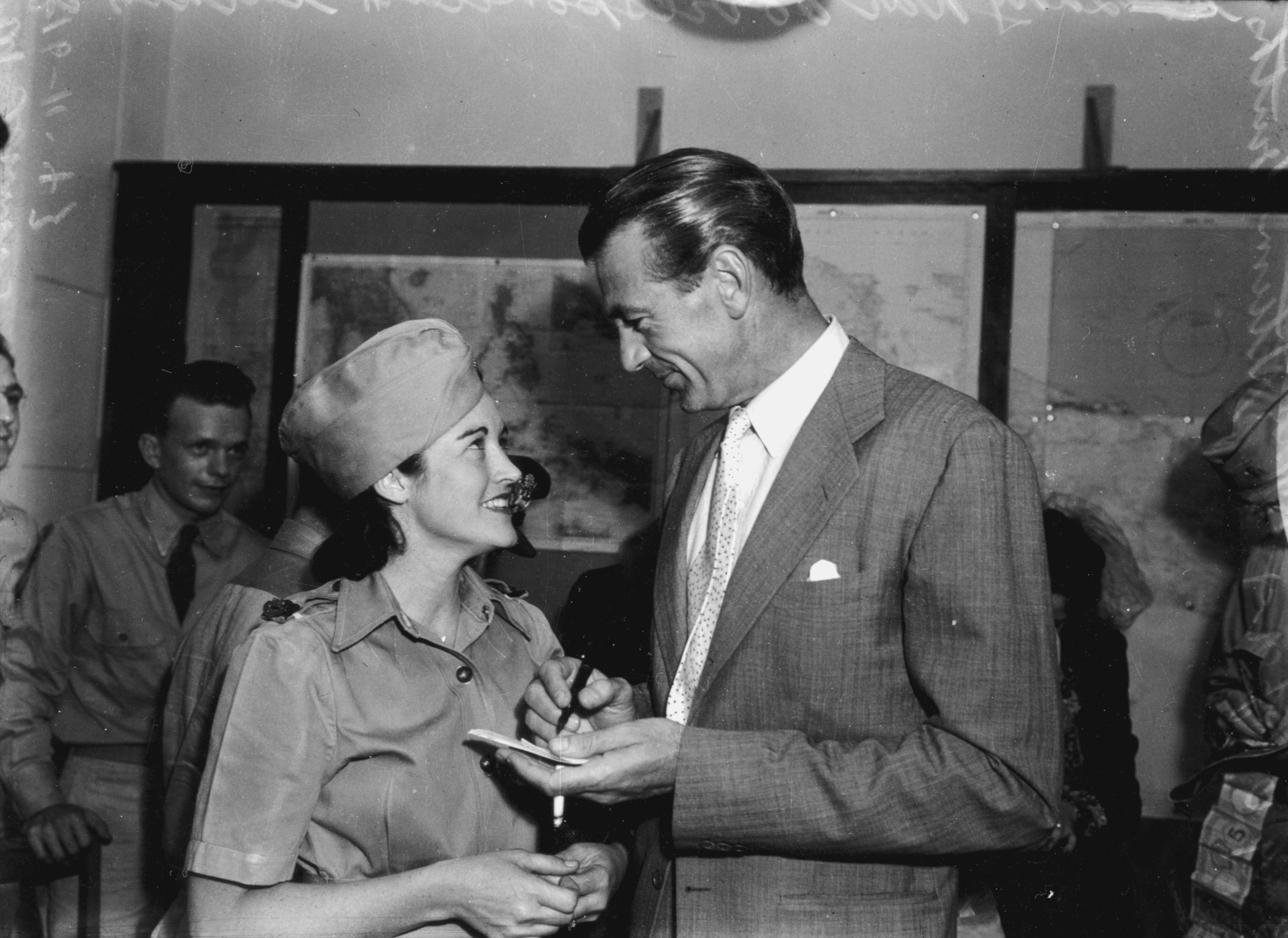 Location: Brisbane, Australia Date: 16 November 1943 Description: An autograph hunter gets Gary Cooper's autograph during a visit to Brisbane, November 1943. Gary Cooper toured Australia in 1943, entertaining US troops during World War II. View this image at the State Library of Queensland: Information about State Library of Queensland’s collection